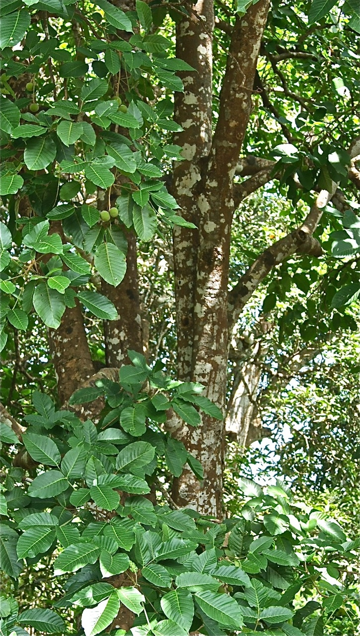 The foliage of a mature Santol Sandoricum koetjape tree. There are several early-appearing Santols (or Santol fruit) in the foreground. (Taken early-May. The harvest season begins in July.) The fruit is a dense plump ball with a tough skin that was also edible. It starts as a very strong tart taste and softens into a back-of-the-throat salty sweetness. A young child's delight.